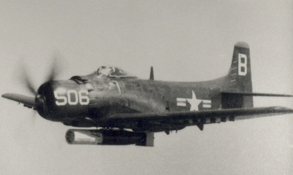 A U.S. Navy Douglas AD-4 Skyraider from Attack Squadron 195 (VA-195) "Tigers" carrying a Mk 13 torpedo en route to the Hwachon Dam in Korea, 1 May 1951. VA-195 was assigned to Carrier Air Group 19 (CVG-19) aboard the aircraft carrier USS Princeton (CV-37) for a deployment to Korea from 9 November 1950 to 29 May 1951. The squadron was renamed "Dambusters" following the successful attack.